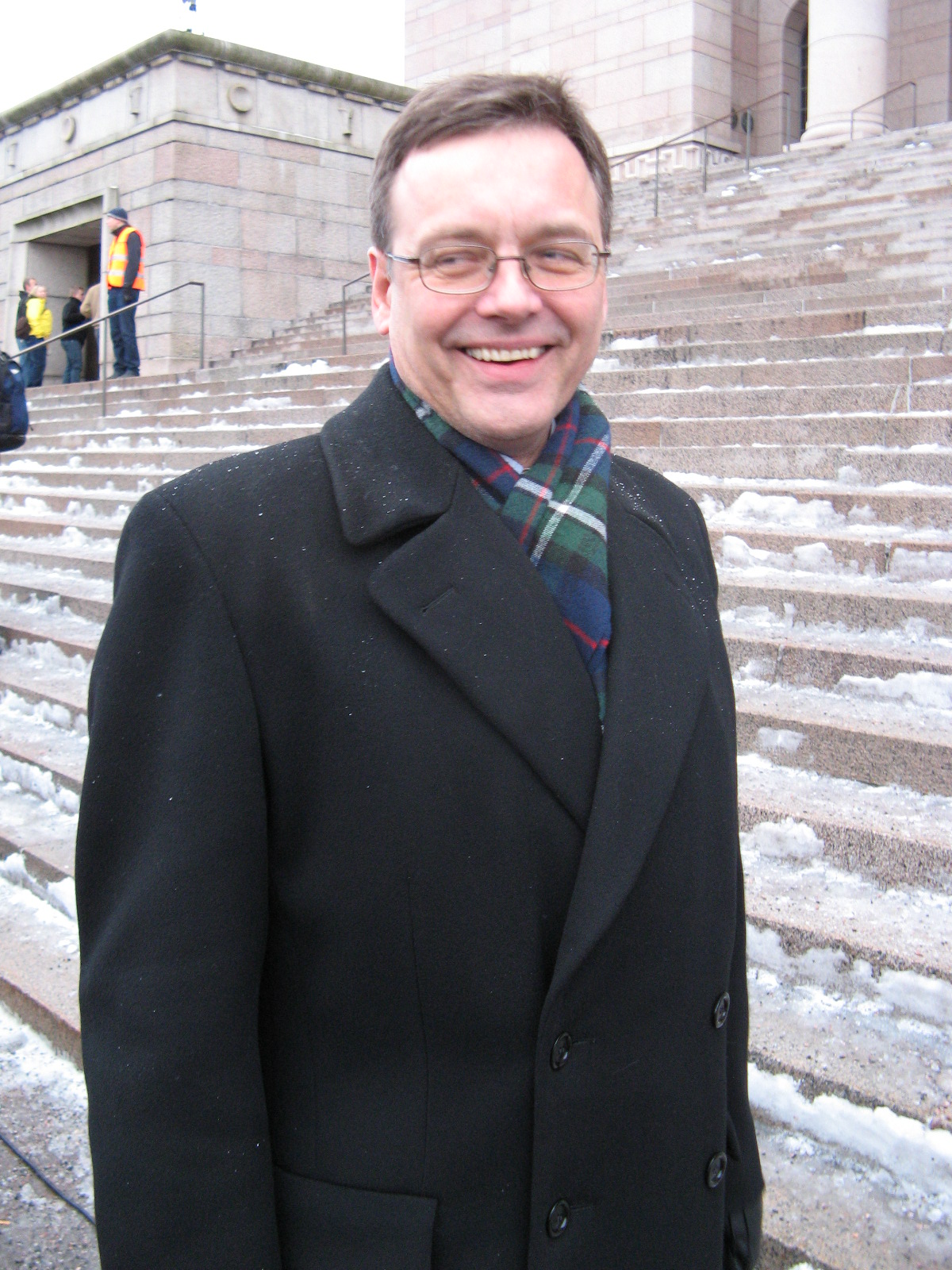 Finnish activist Mikael Storsjö in a demonstration against "Lex Nokia" in Helsinki